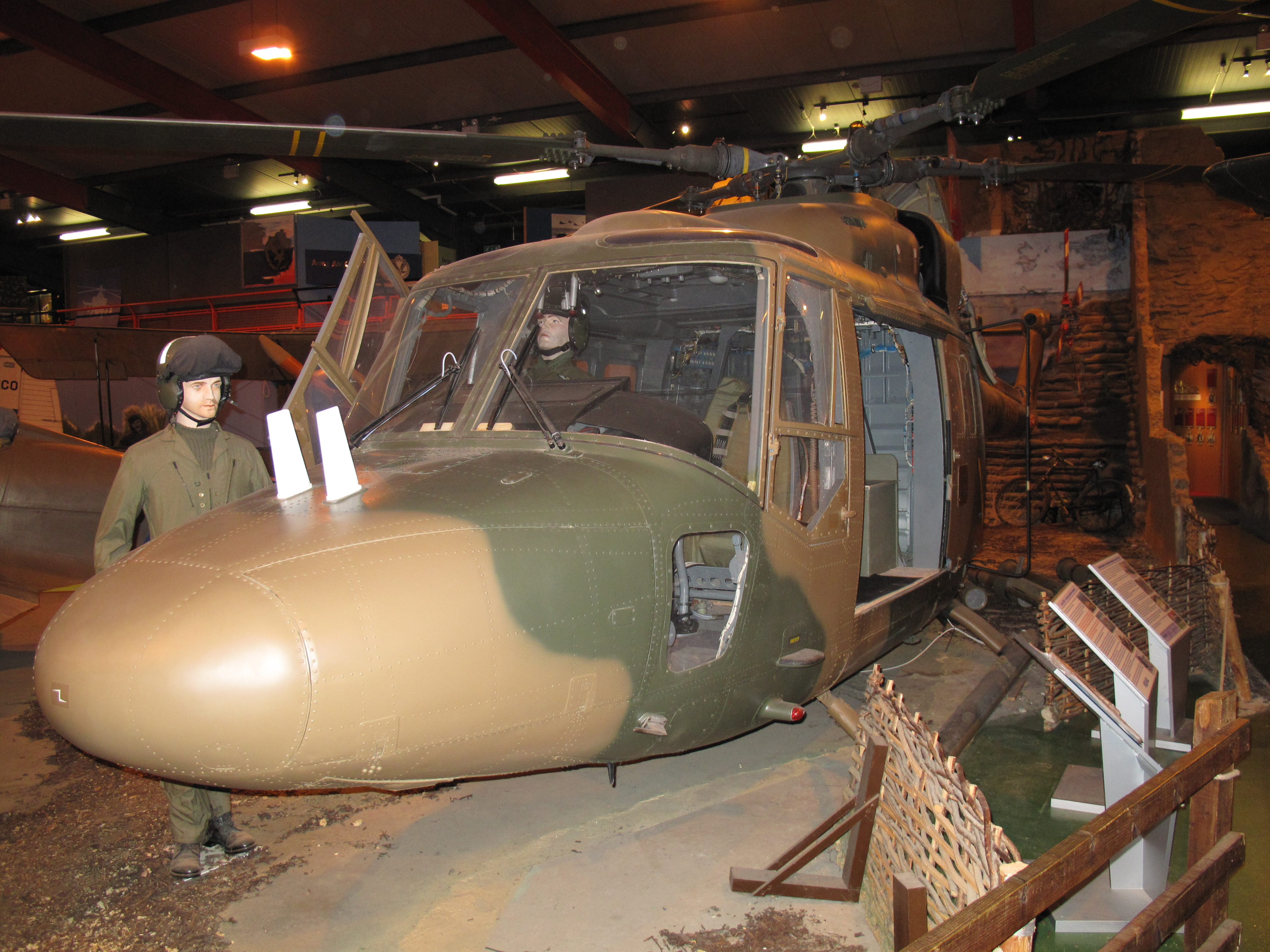 Photo of Westland Lynx XX153 which broke the Helicopter speed record in 1972